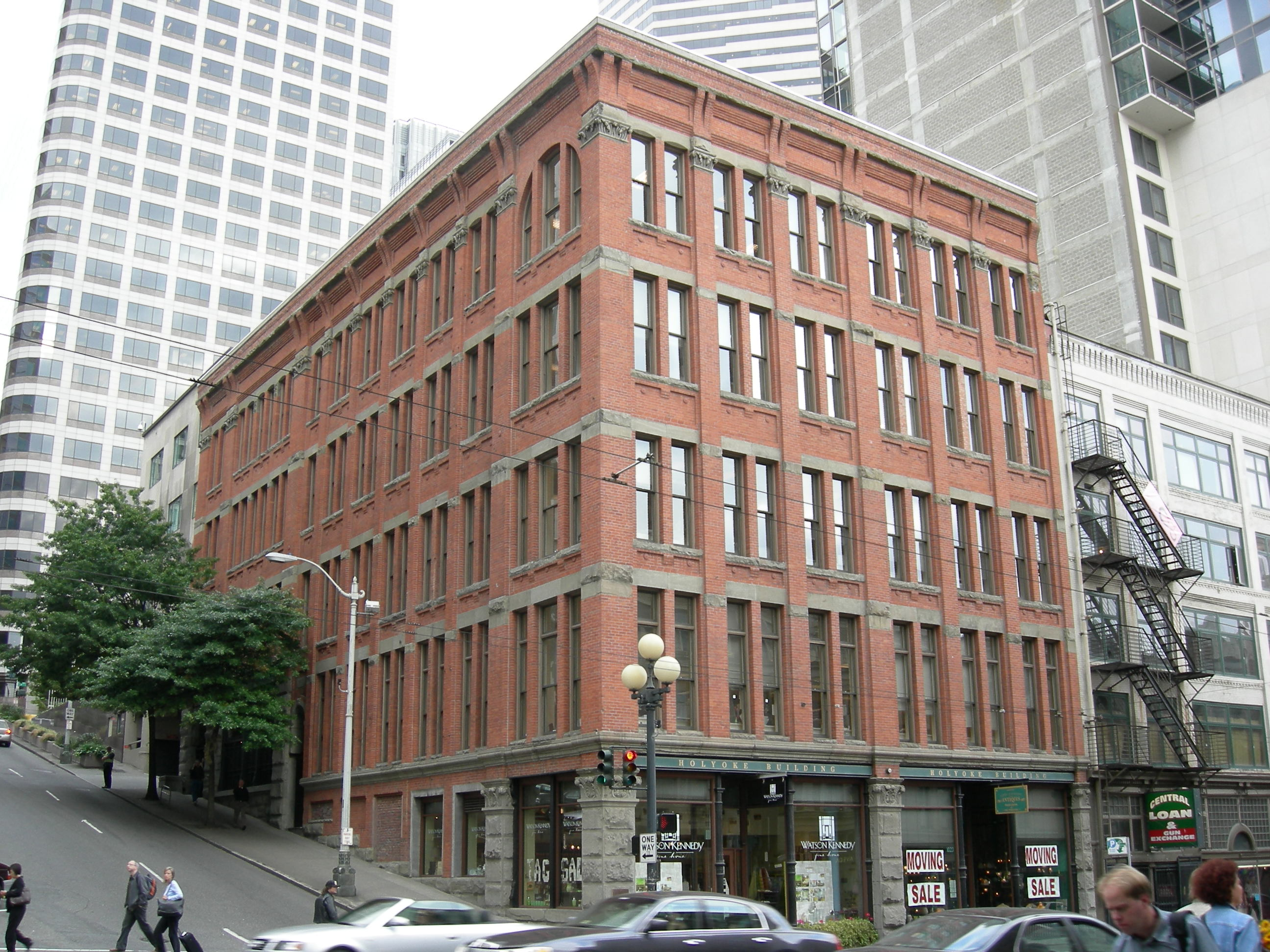 Holyoke Building, 1018–1022 First Avenue, Seattle, Washington, USA. Listed as a city landmark, and in the National Register of Historic Places, ID #76001888. The same building in 1900.